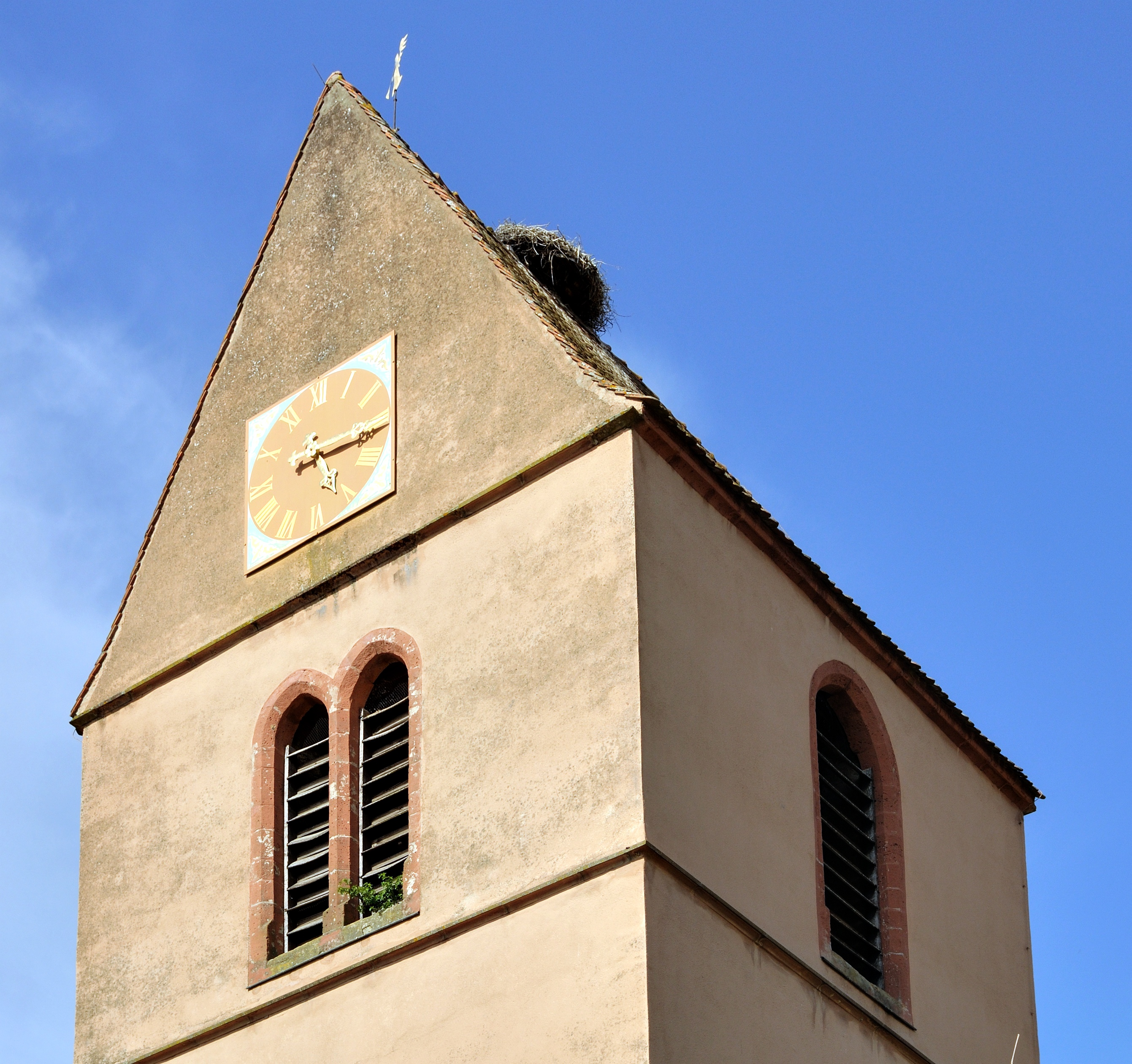 Egringen: Protestant Church